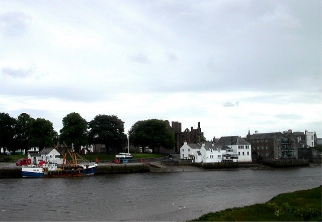 River Dee at Kirkcudbright